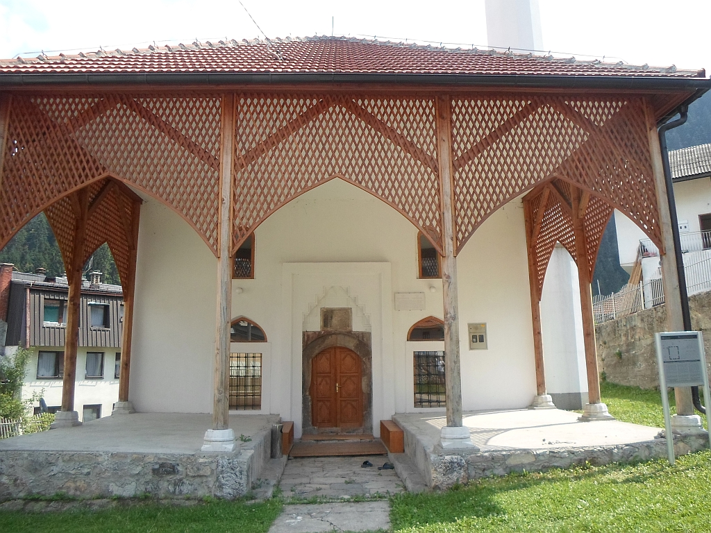 Мир-Мухамедова (Мехмед и Мустајбегова) џамија This image was uploaded as part of Trace of Soul 2015.